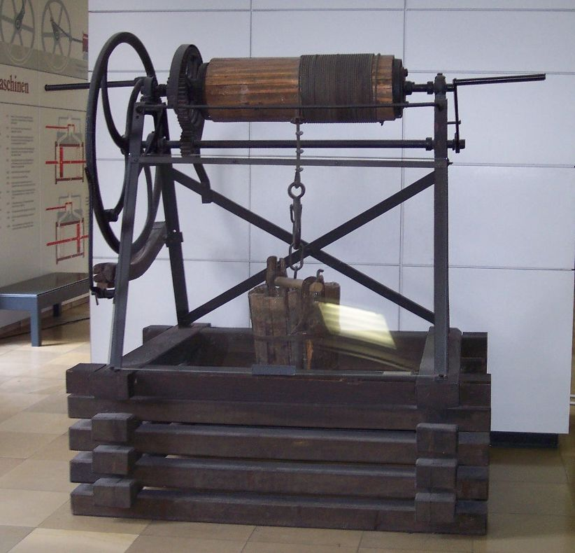 Historic one-manned winding hoist with hoisting bucket.